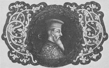 Oldest illustration of Skanderbeg. A miniature included in De Romanorum Magistratibus of Lucio Fenestella (pseudonym of Andrea Domenico Fiocco), first printed in 1477. Possibly originated as early as 1465.